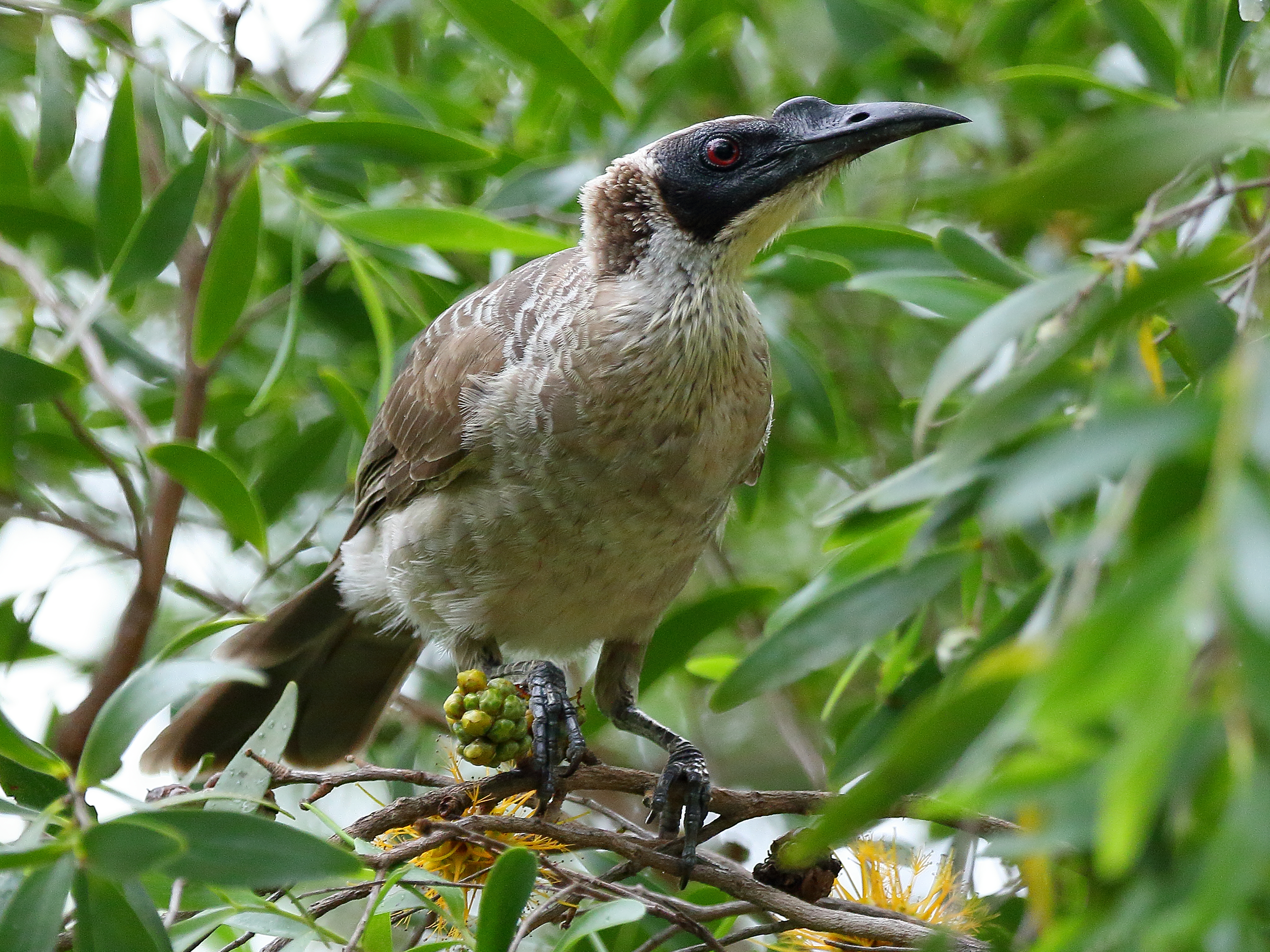 Silver-crowned Friarbird (Philemon argenticeps) at Marlow Lagoon, Darwin, Northern Territory, Australia.